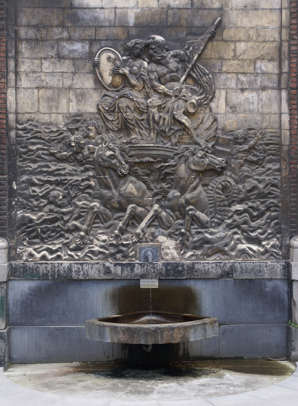 Kidnapping of Amphitrite by Poseidon - Hof van Tilly, Maastricht, The Netherlands. By unknown artist, 1714.